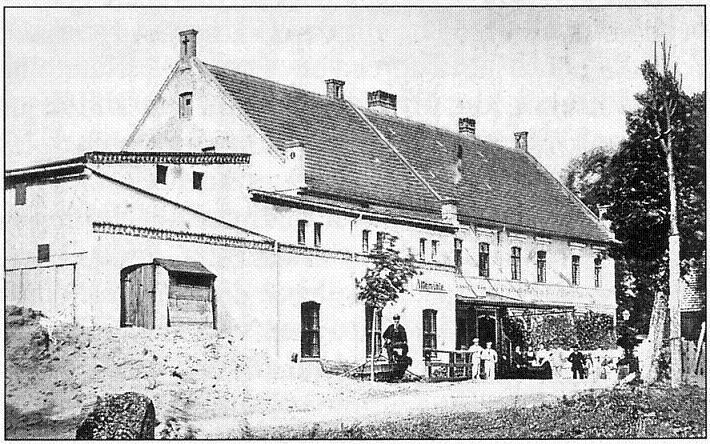 "Old Mill" (water wheel) in Gömnigk. The village Gömnigk is a part of the town Brück in the district Potsdam Mittelmark, state Brandenburg, Germany, at the border to the natural preserve Naturpark Hoher Fläming.